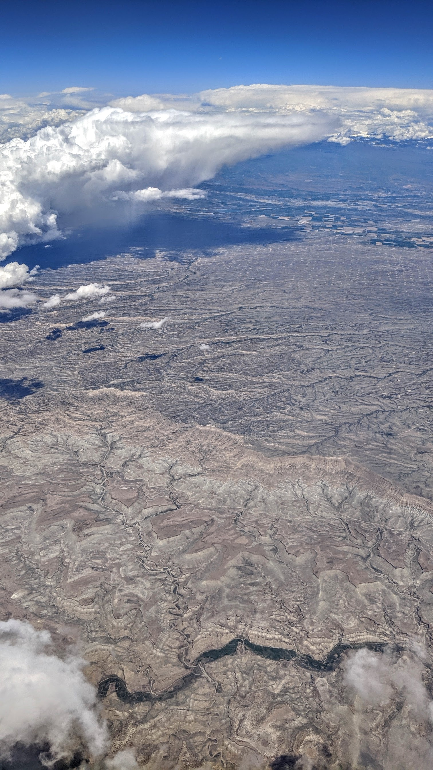 Aerial view of Nine Mile Creek at North Franks Canyon, in Nine Mile Canyon, Utah. An array of natural gas wells in visible in the distance.